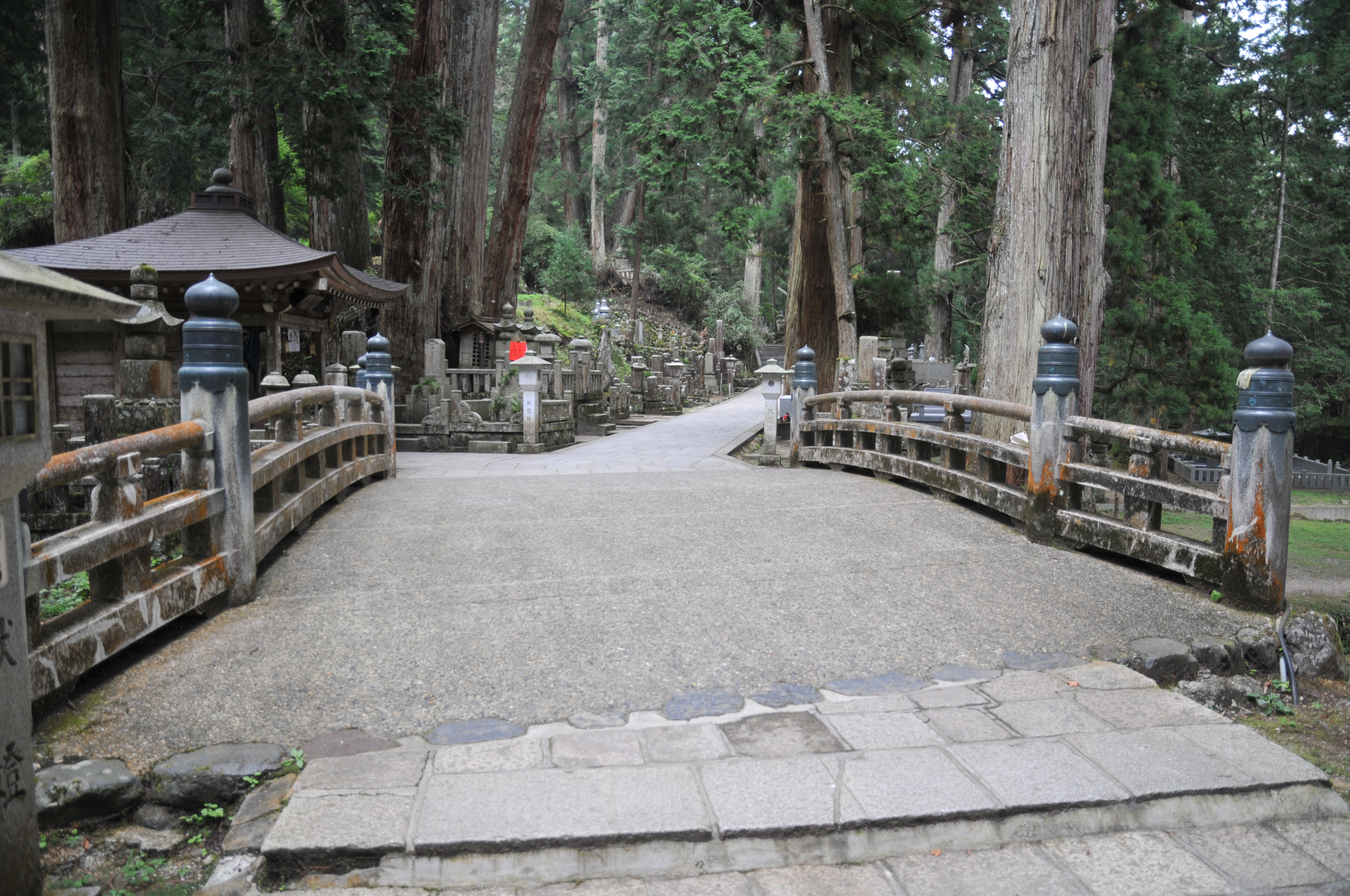 Kōyasan Okunoin Nakano-hashi bridge